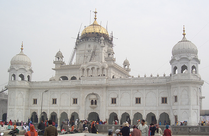 Sikhism Related Photo of Steel Kara - one of five articles of faith.